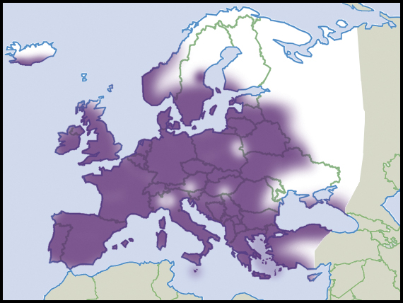 Vitrea contracta (Westerlund, 1871). Distribution in Europe, scientific state of knowledge of 2012. Source description in English. Light colour indicated rare occurrences or regions where the species could eventually be expected to occur. Dark colour indicated relatively reliable occurrences, as well as regions where the species was expected to occur, and where the species was not known to be extremely rare. Dark colour indications were not necessarily based on published records. Species summary in AnimalBase